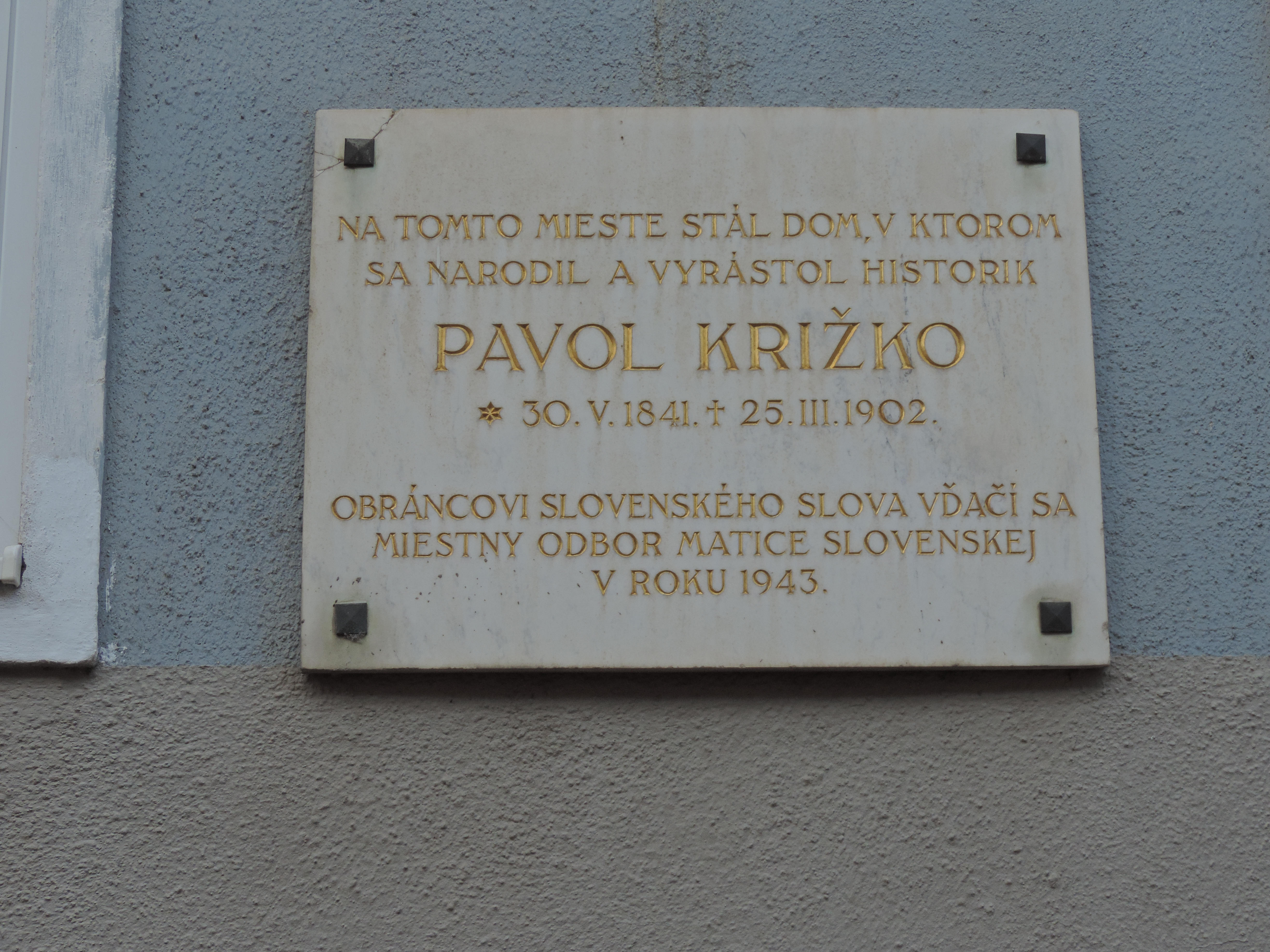 Banska Bystrica, Slovakia